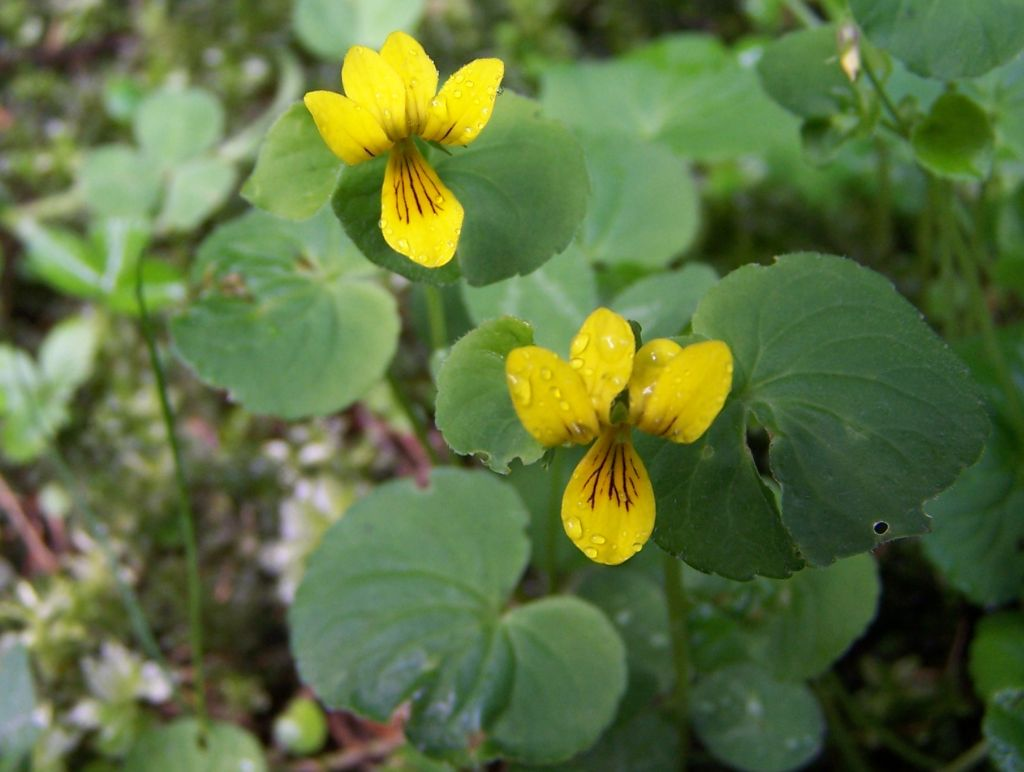 Viola biflora (pl. fiołek dwubarwny), habitat: Tatra Mountains, Dolina Tomanowa